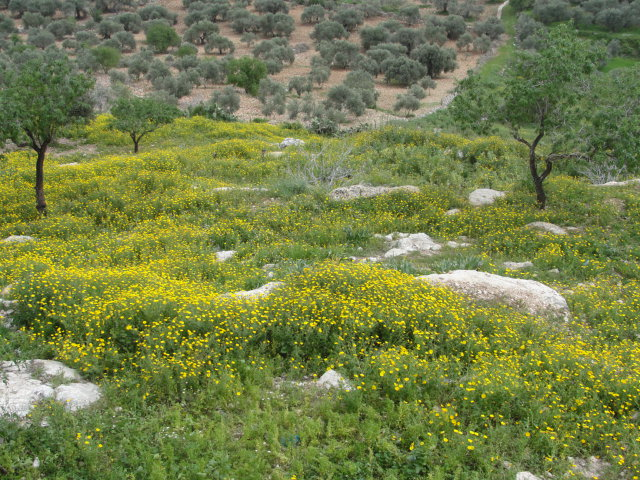 ربيع شوفة